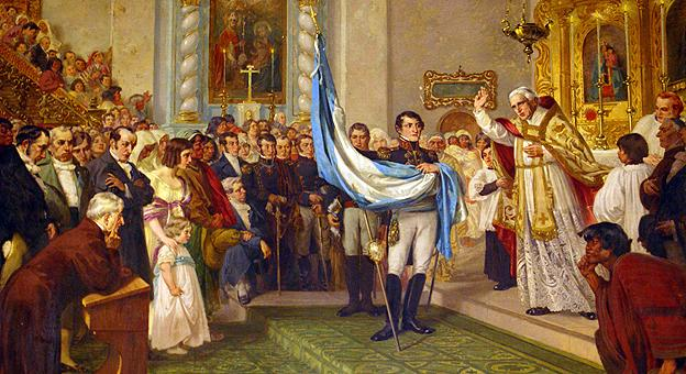 Father Juan Luis Gorriti blesses the Argentine flag, held by Manuel Belgrano, on May 25, 1812.